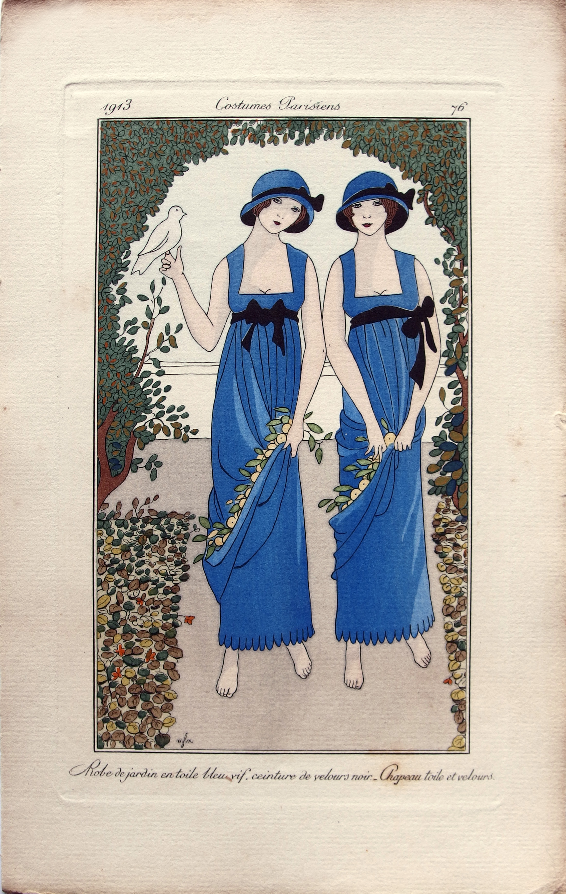 Costumes Parisiens Fashion illustration No.76 from Journal des dames et des modes, 1913 - Robe de jardin en toile bleu vif, Marie Madeleine Franc-Nohain